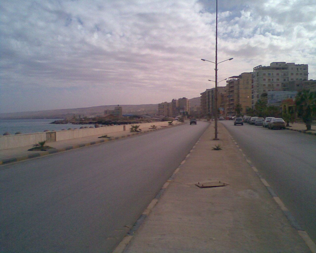 The corniche street of Derna, Libya.